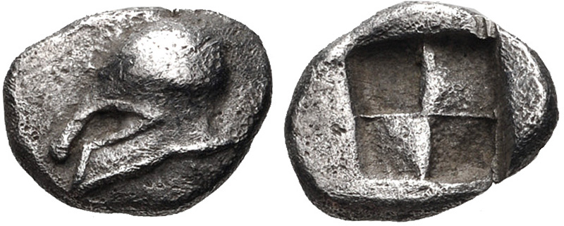 IONIA, Uncertain. Circa 600-550 BC